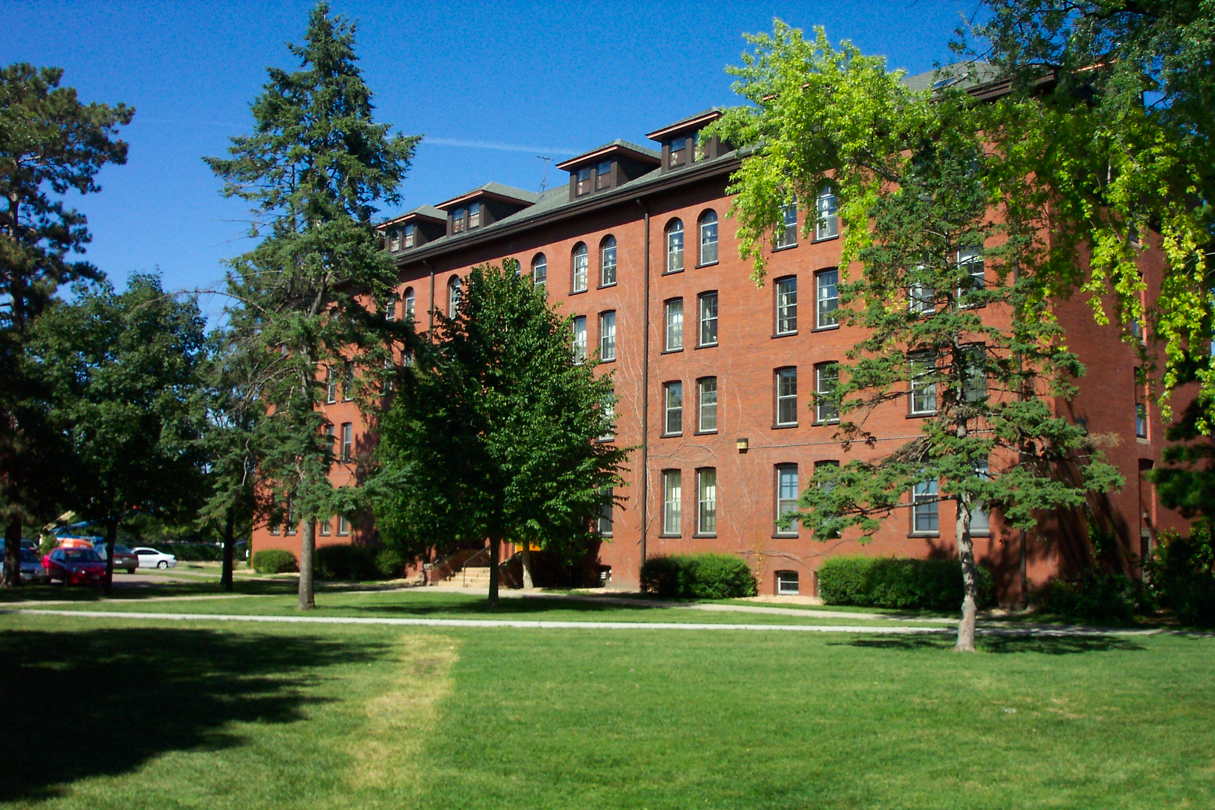 Cretin Hall (University of St. Thomas in St. Paul, Minnesota). It is the original front of Cretin Hall before the orientation of the campus switched to the other side.